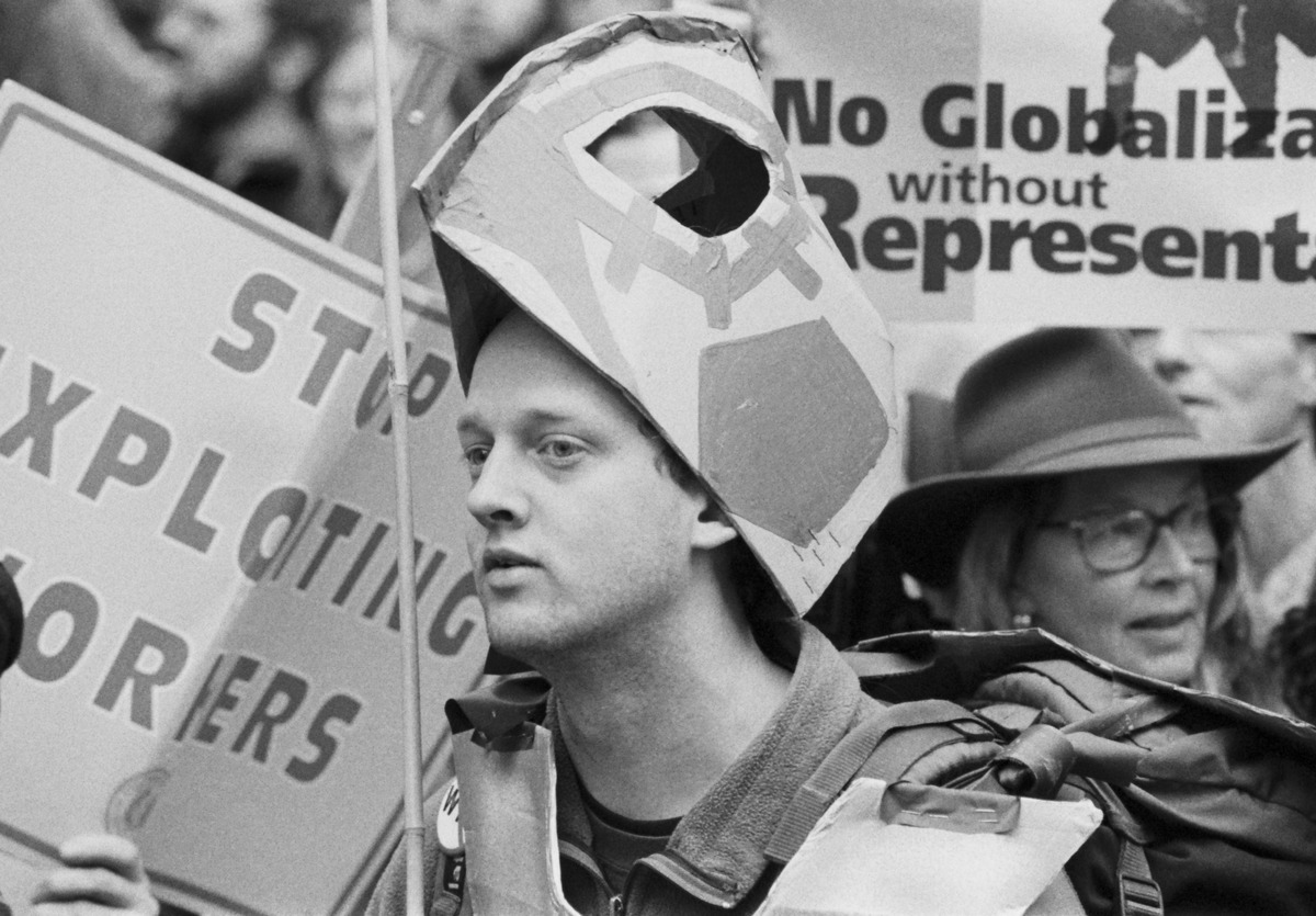 Protests against the 1999 World Trade Organization Ministerial Conference: turtle costumes.